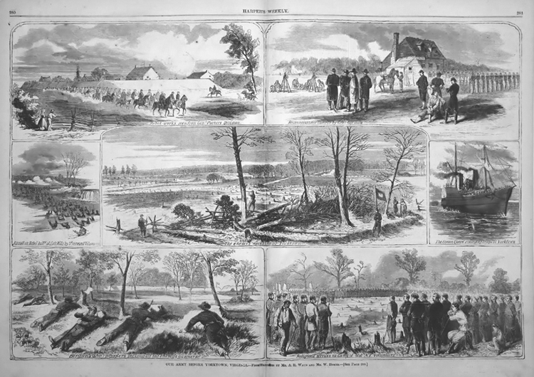 American civil war Battle of Yorktown (description below: ___ army _____ Yorktown Virginia) (dateinformation 1862 : so it may be April 5 to May 4 1862) printed in Harpers weekly